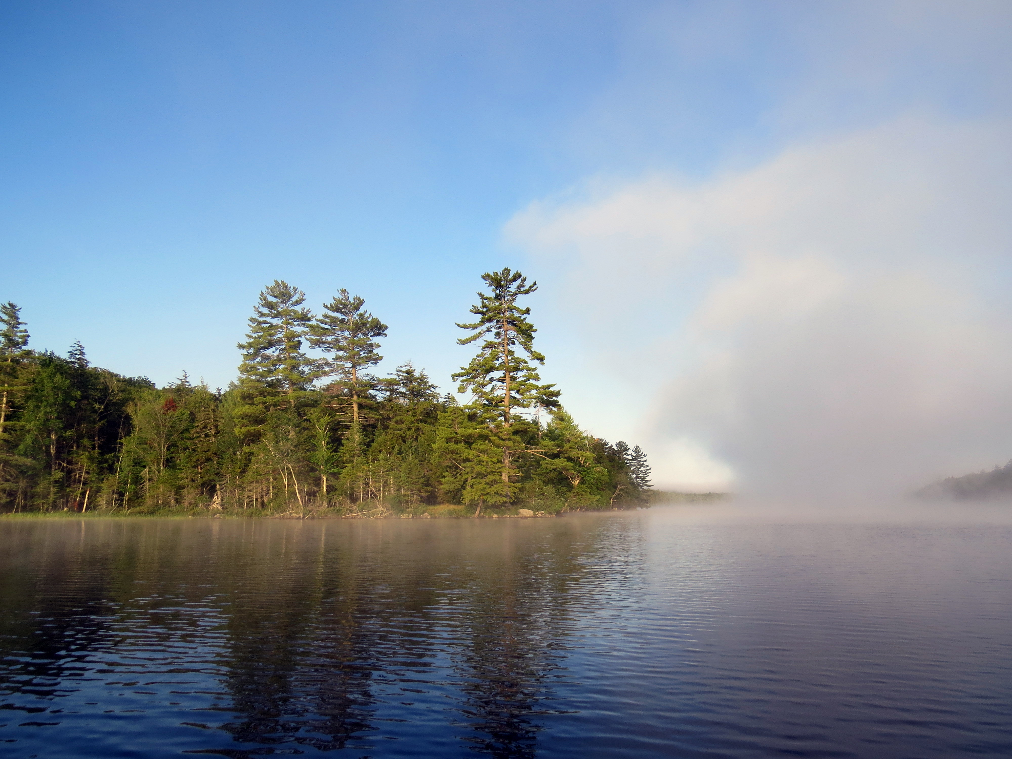 The looking north near the north shore of Lake Utowana.